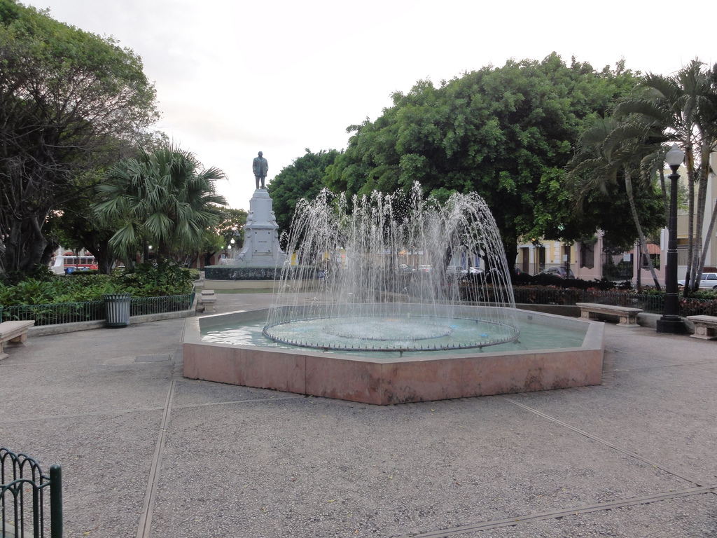 DSC01739 Fountain at Plaza Munoz Rivera looking East in Barrio Segundo, Ponce, Puerto Rico